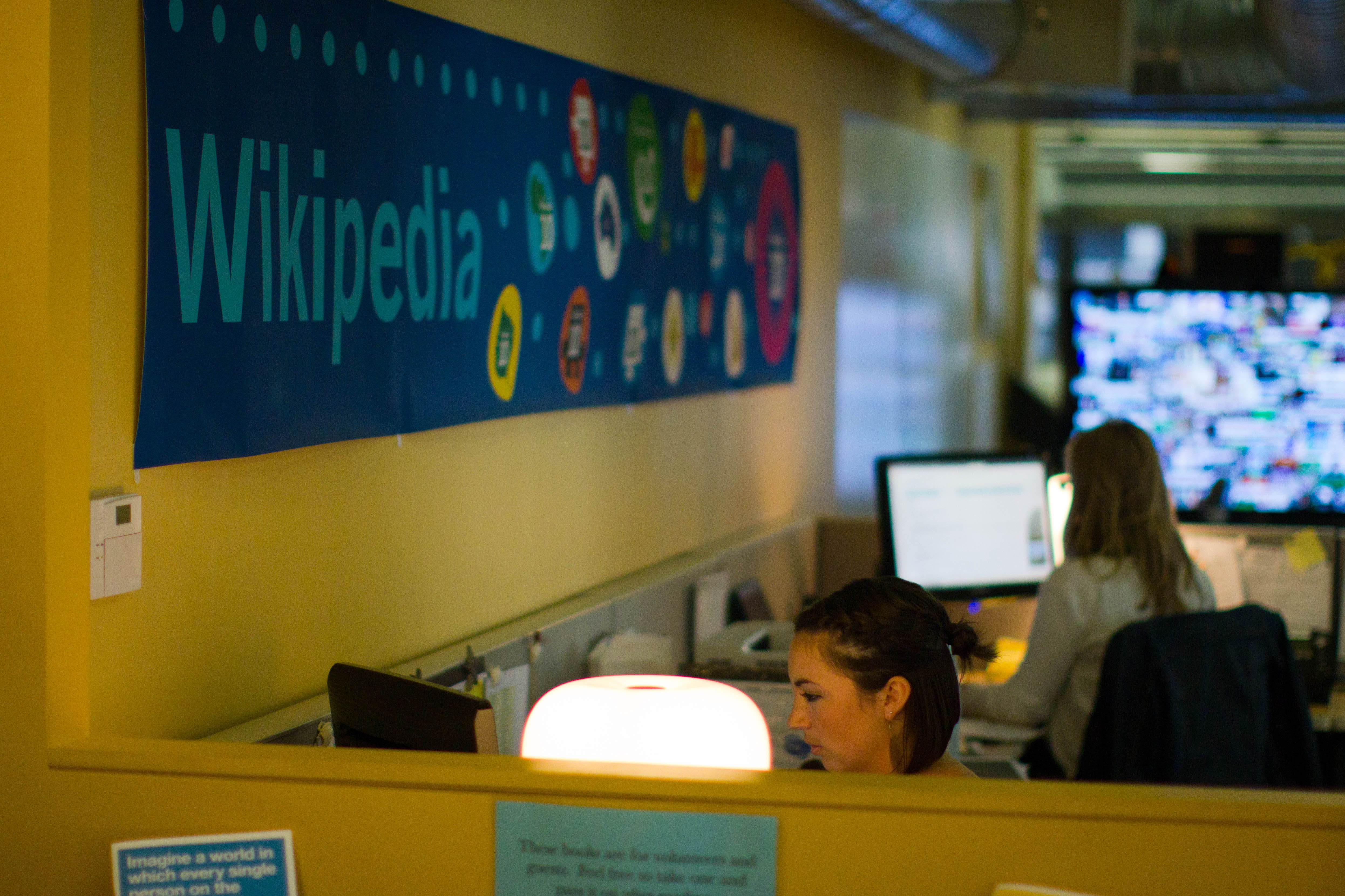 Wikimedia Foundation desks and workspace with images on screen